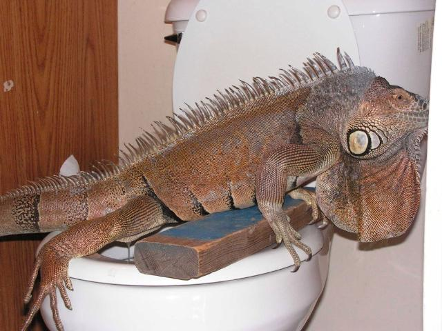 A Toilet Trained Iguana "Wizard"